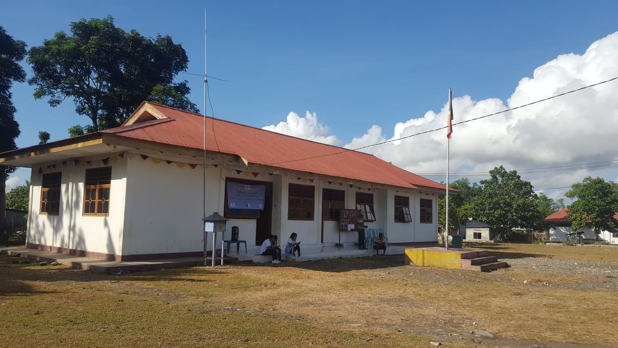 Administration building of administrative post of Lacluta in Dilor, East Timor